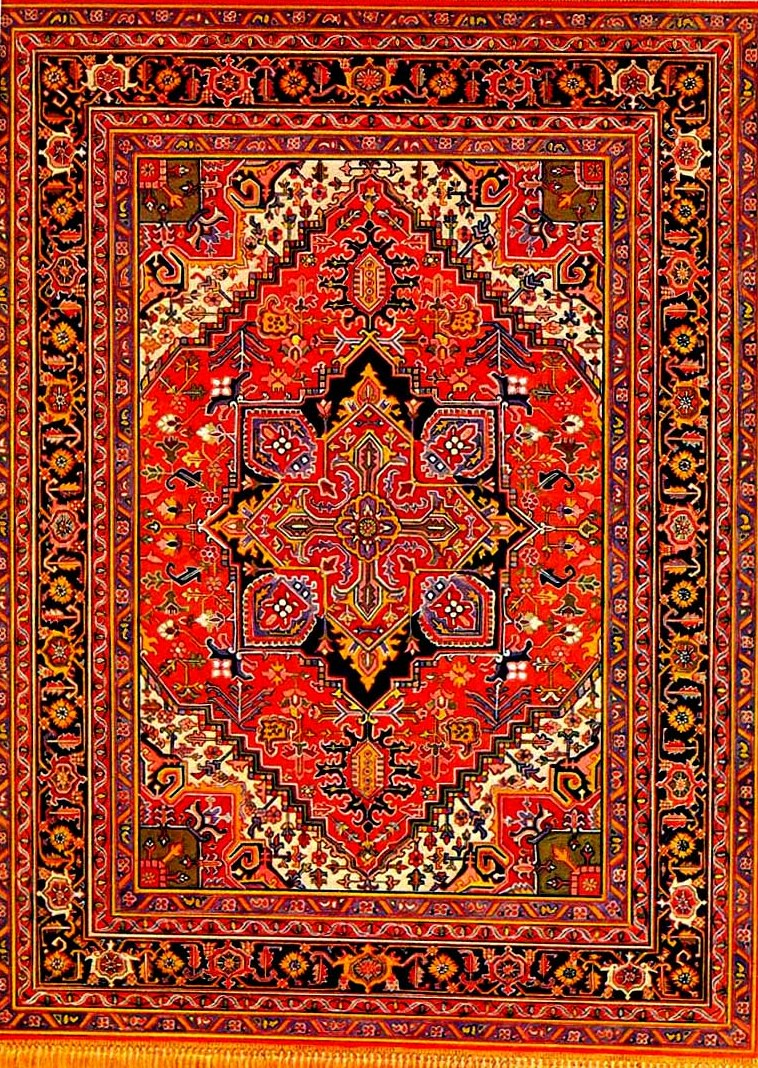 Heris rug, Tabriz school, XVIII c.